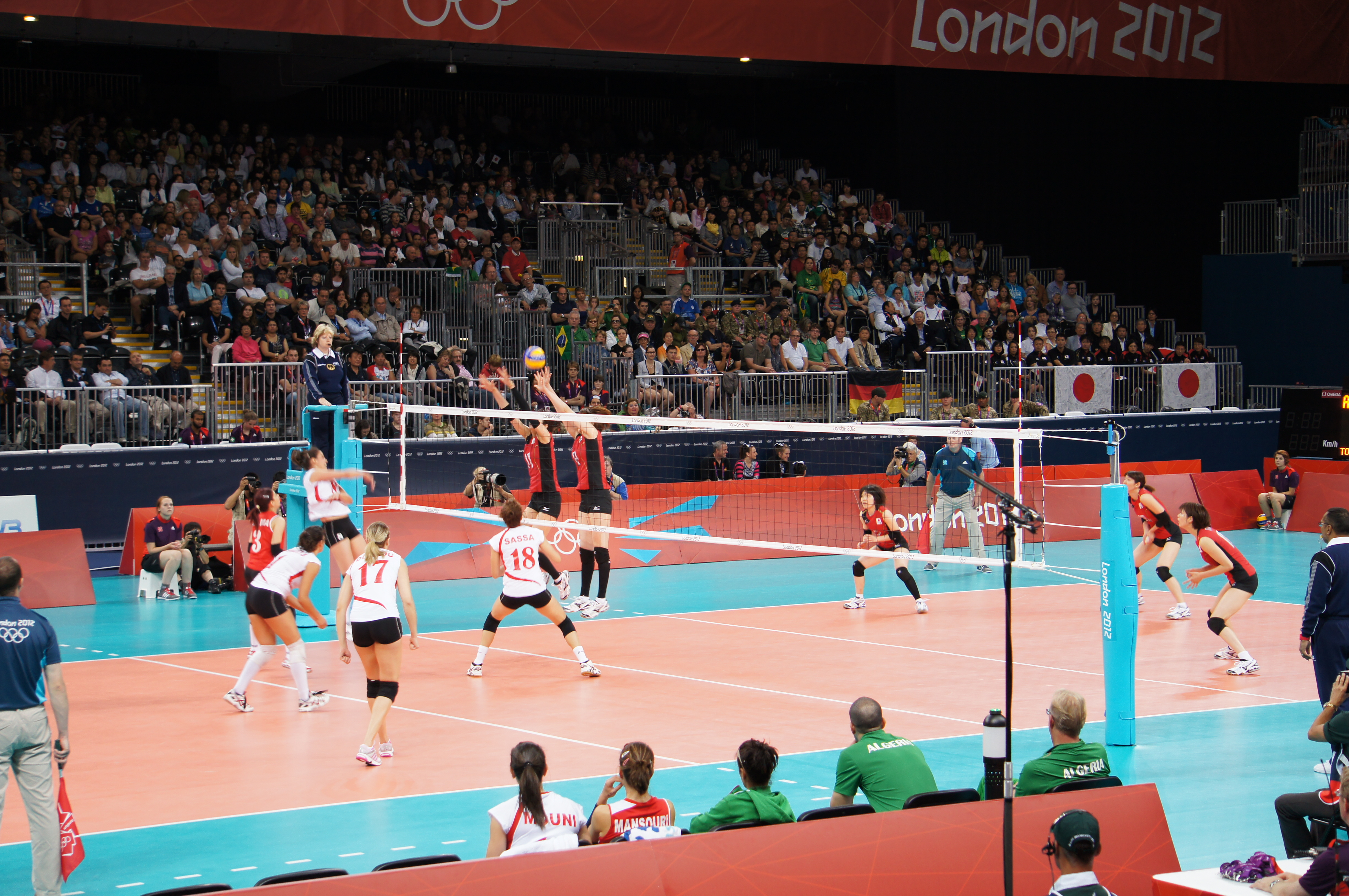 Algeria and Japan women's national volleyball team at the 2012 Summer Olympics